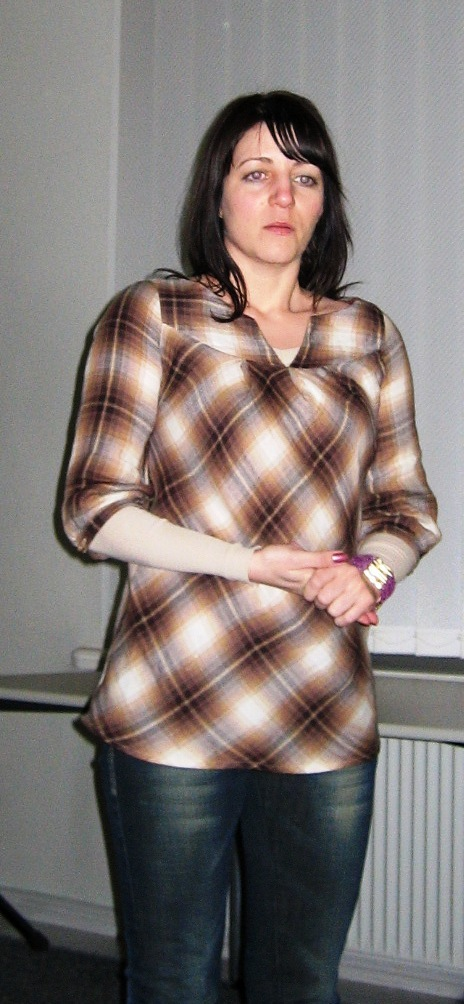 Kärt Einlo is Estonian film producer.